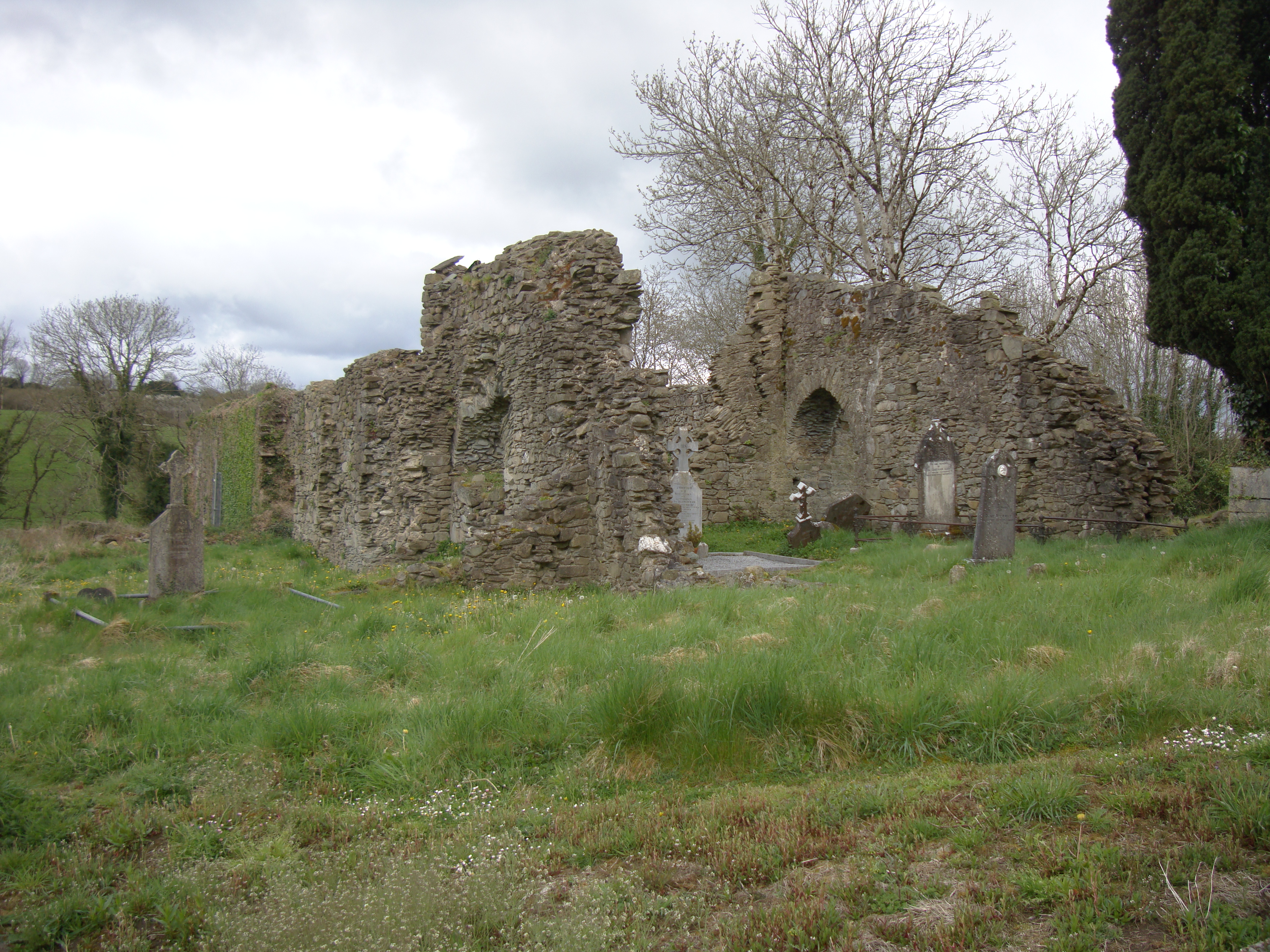 Photograph of the remains of Mourne Abbey, Co. Cork, Ireland